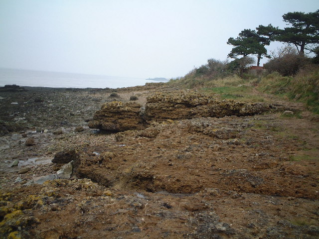 Black Nore Seashore